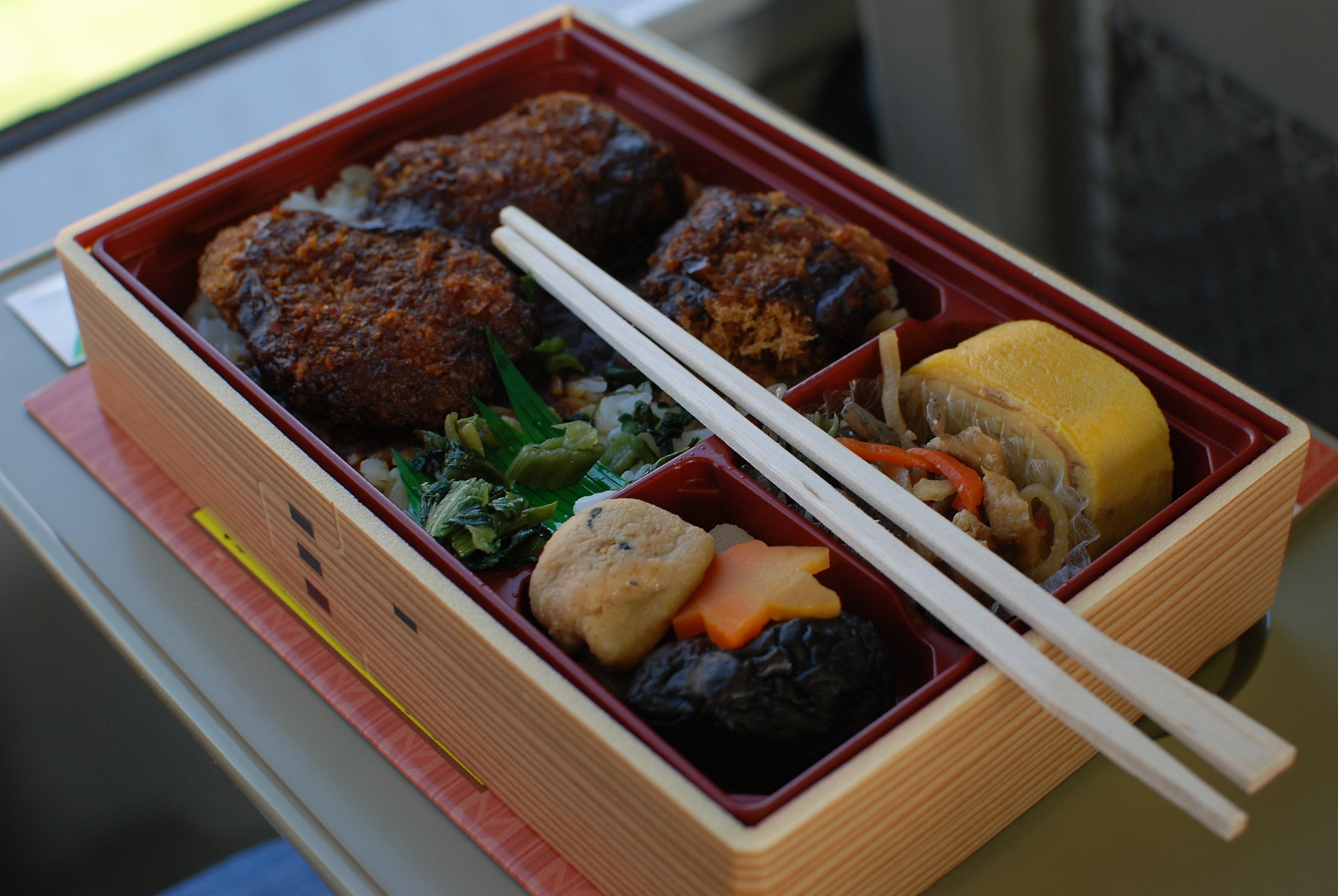 An example of travel bento sold at trains stations in Japan. It also faithfully represents bento food